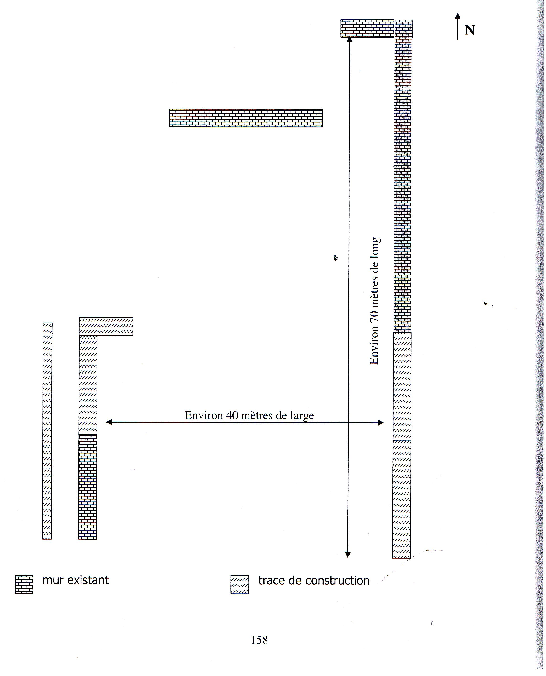 Plan du château de Rougemont